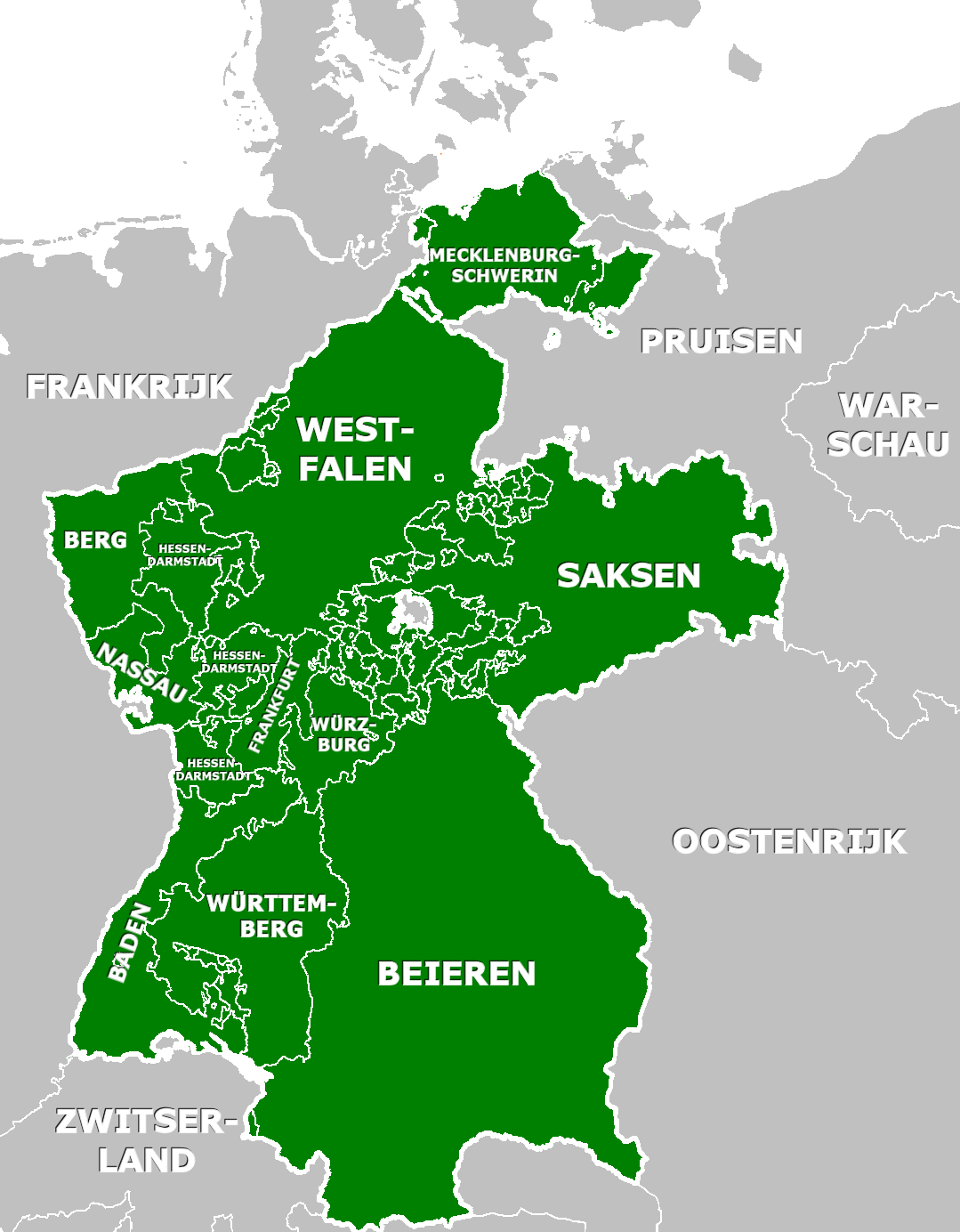 The Confederation of the Rhine in 1812